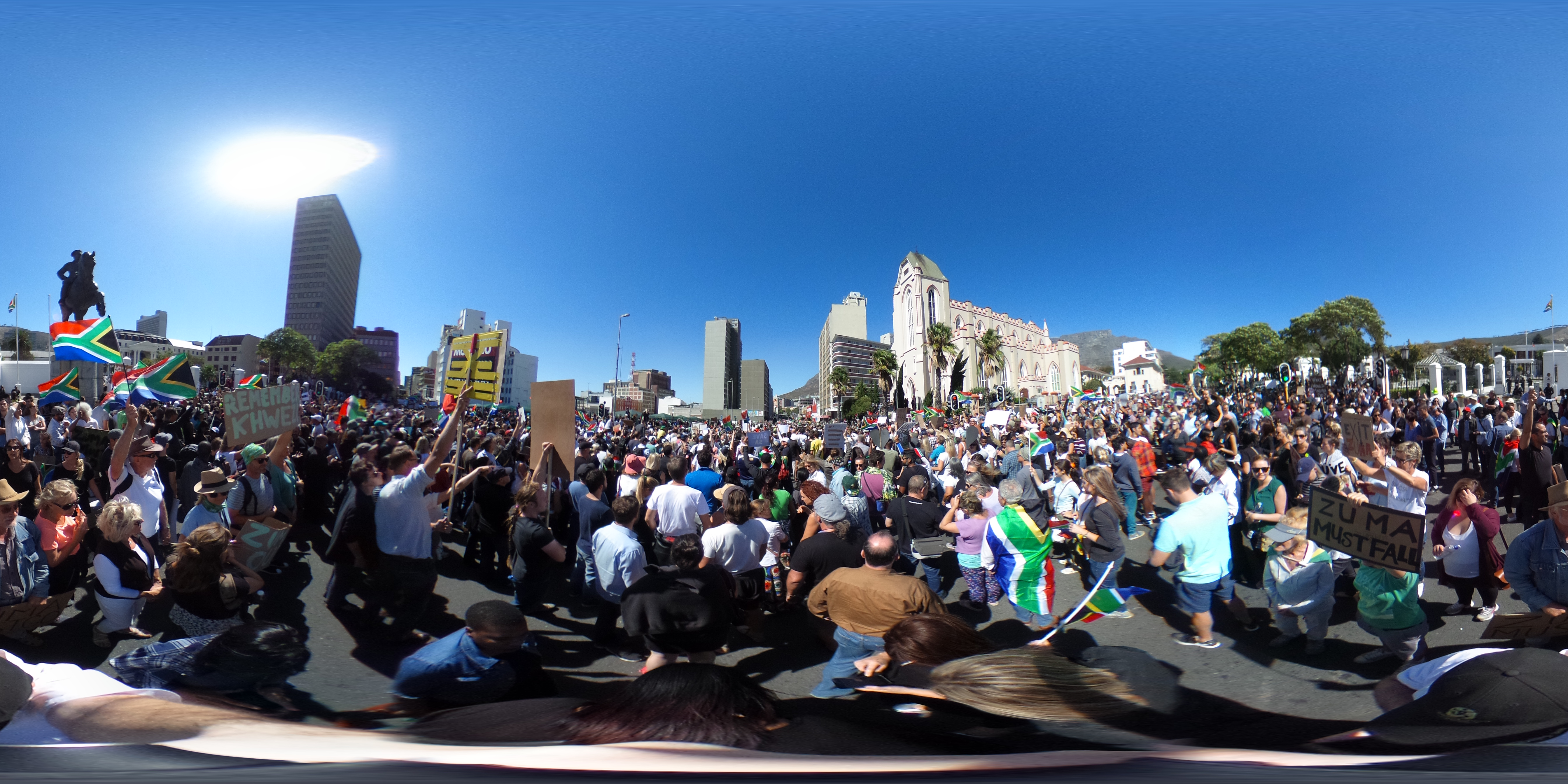 A 360 degree photograph of the Zuma Must Fall protests in front of the South African Parliament buildings in Cape Town.